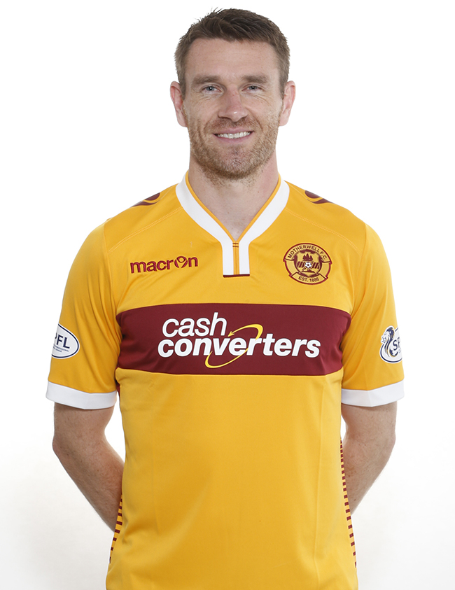 Motherwell Defender Stephen McManus